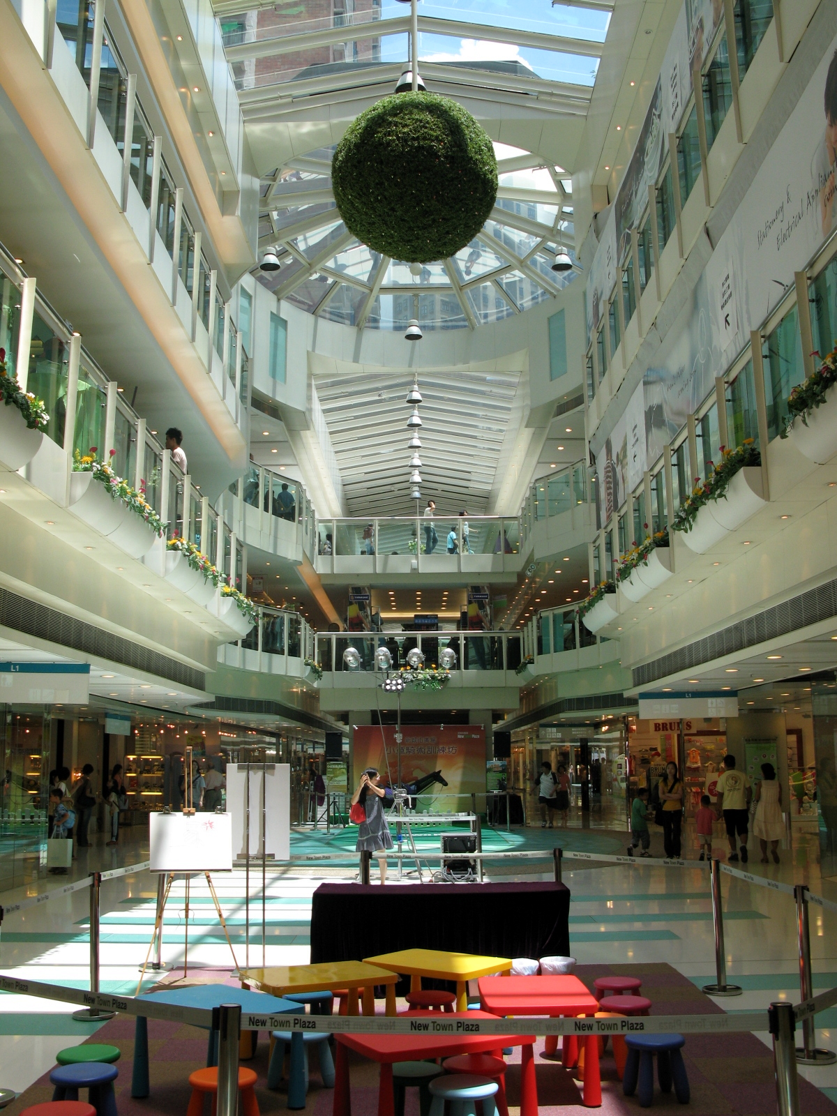 新城市廣場第三期天幕長廊 New Town Plaza Phase3 Void